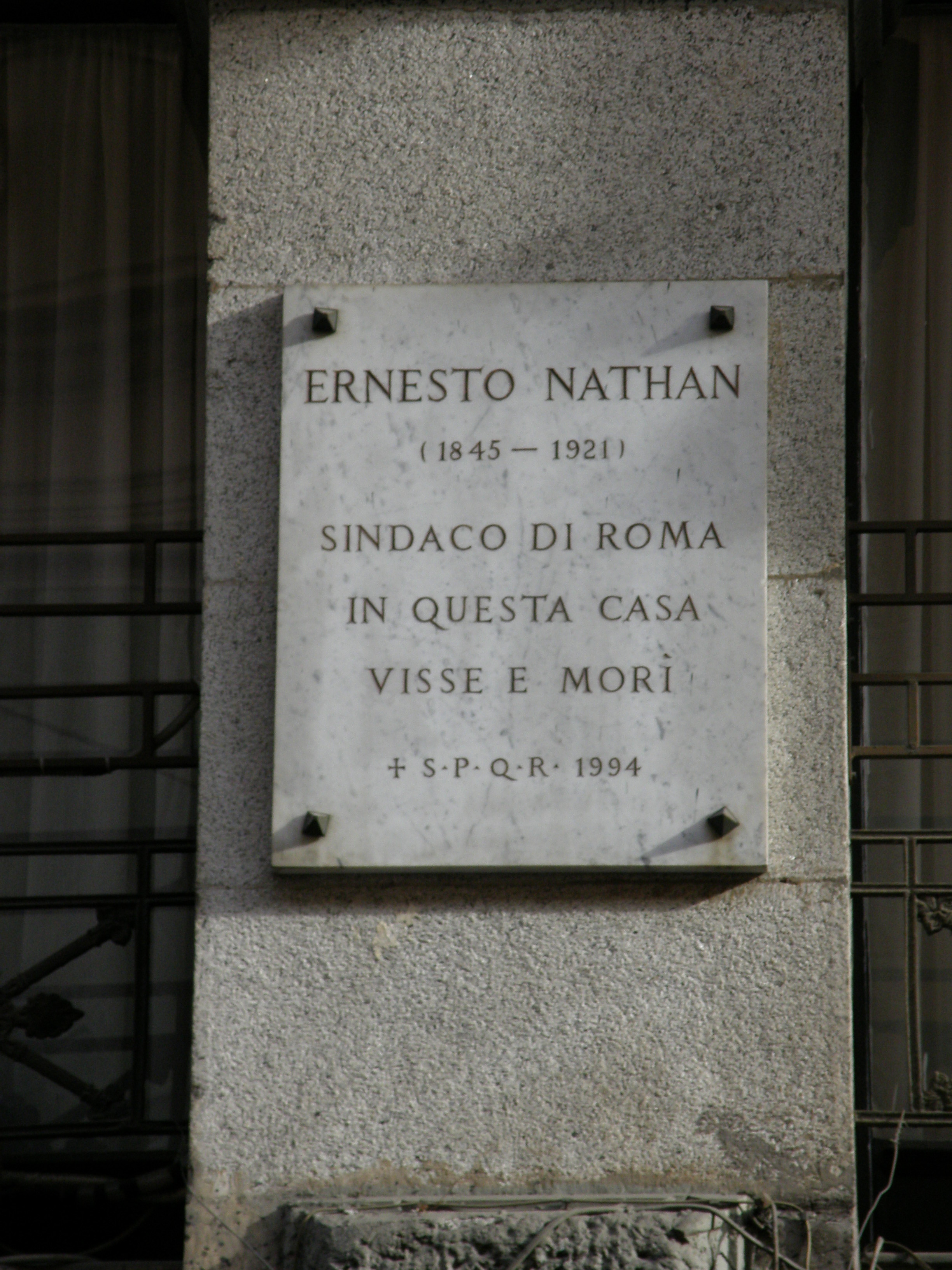 Rome, Italy - Via Torino - Commemorative plaque devoted to Ernesto Nathan